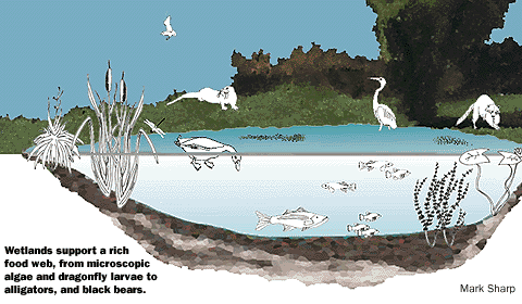 Depiction of the food web associated with freshwater wetlands